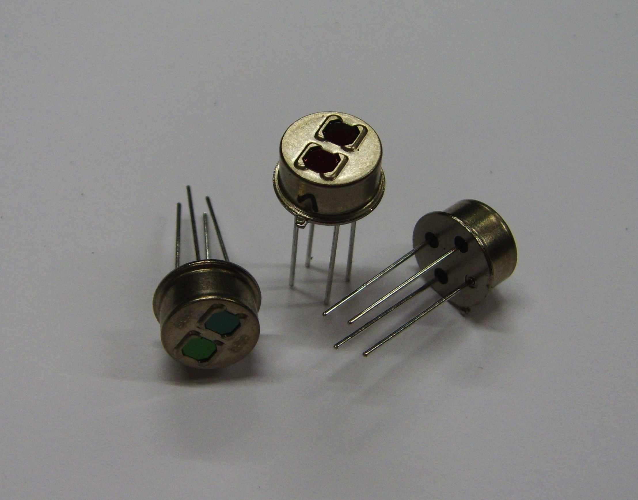 Double pyroelectric sensors in TO-5 package with infrared filters on the front.